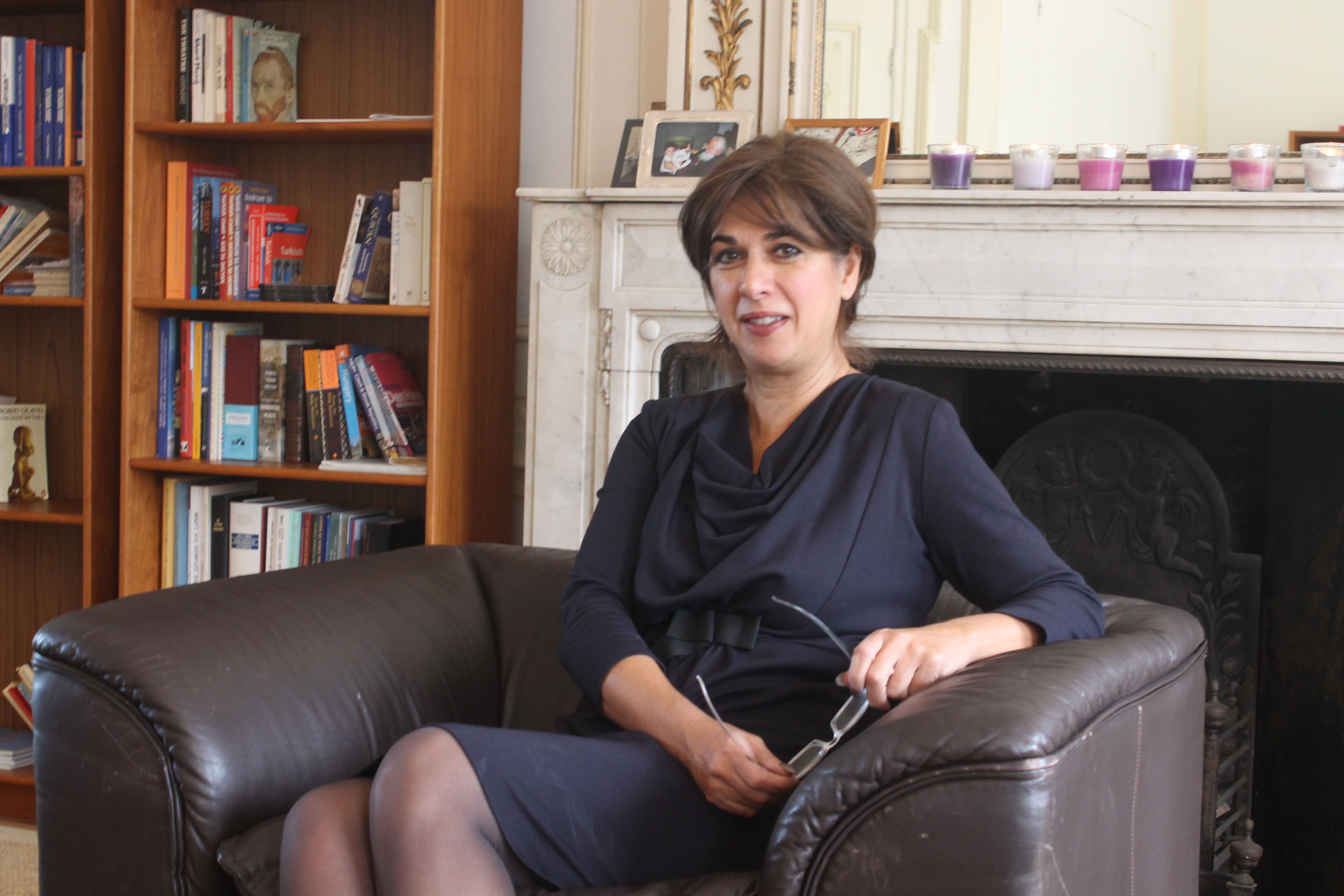 Tasoula Hadjitofi